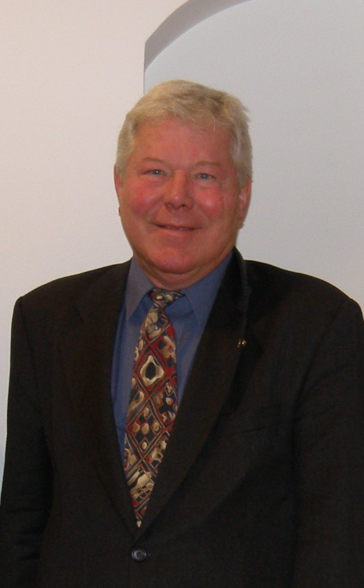 Norwegian ambassador to Estonia, HE Stein Vegard Hagen